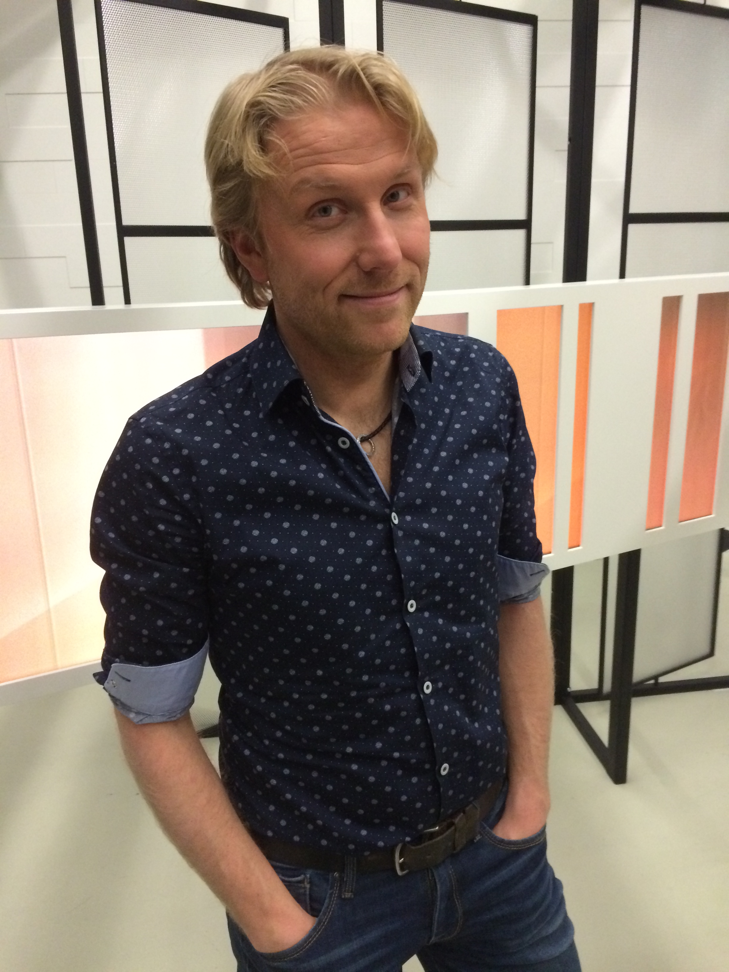 Frans Pollux, writer, musician and presenter for L1 television, Netherlands.